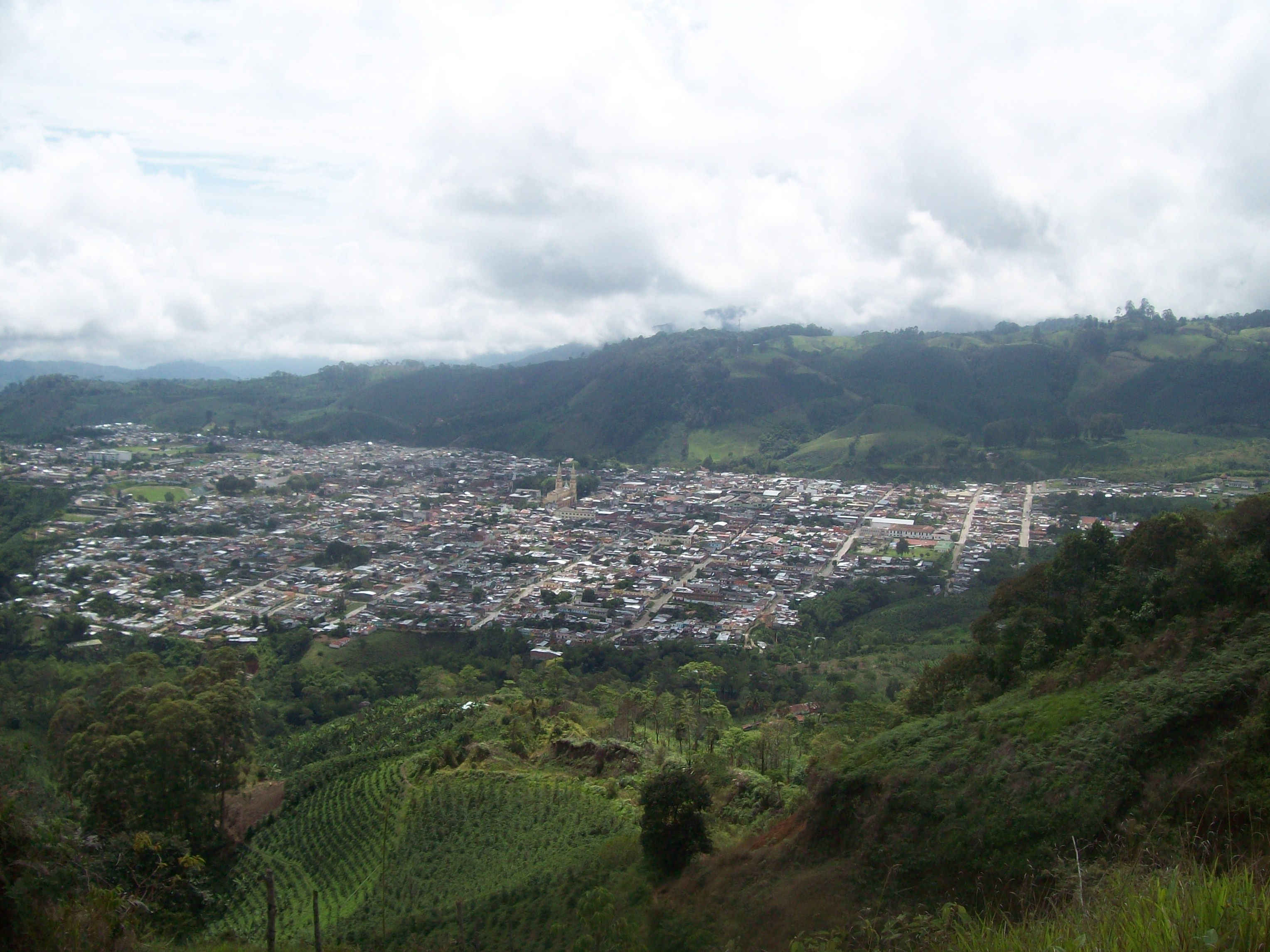 Foto tomada desde "La polca" sitio en el cual se puede divisar la amplitud del puelbo.